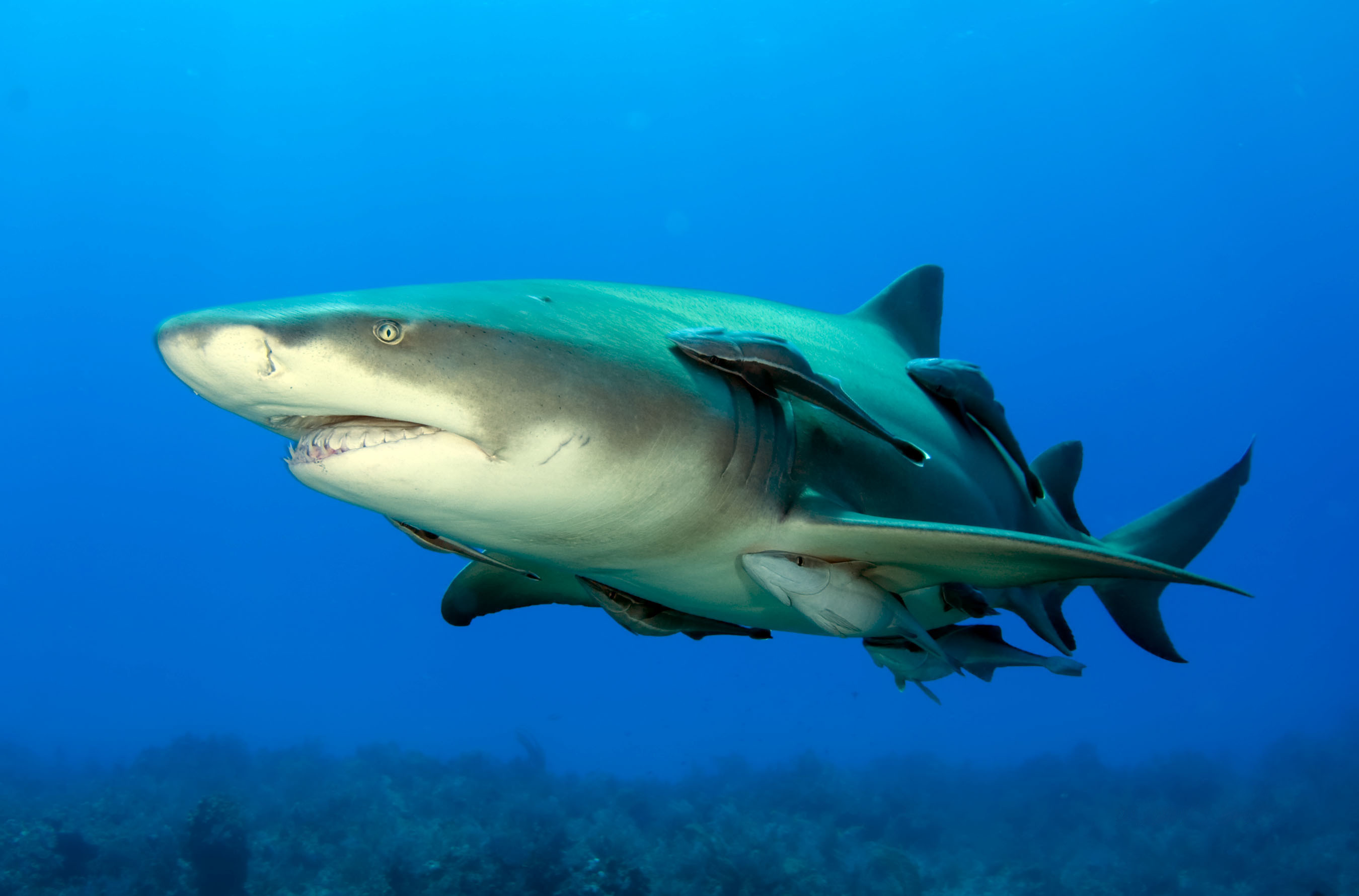 A lemon shark with ramoras in the Bahamas